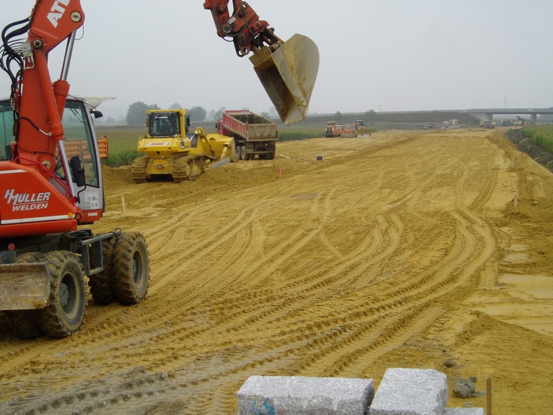 Working in earthworks